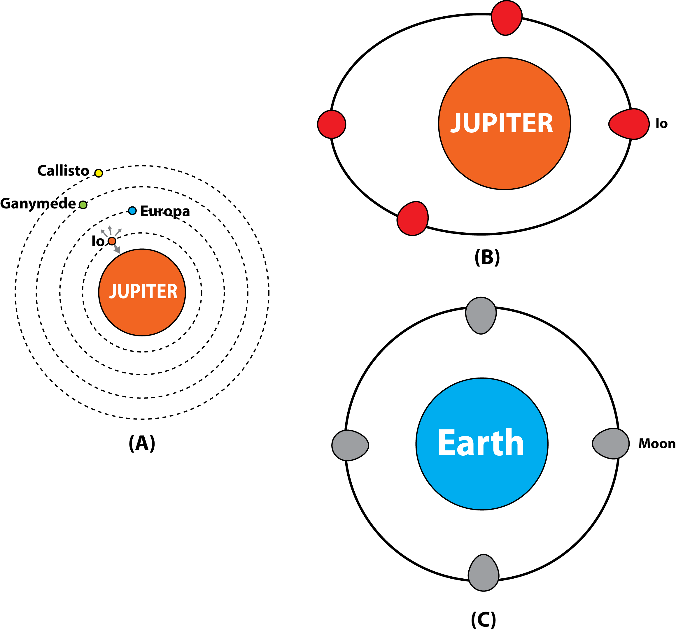 This figure help reader to under stand tidal heating process on Io. It has three parts: (A) four major moons of the Jupiter (b) Io's orbit (3) Earth's moon's orbit